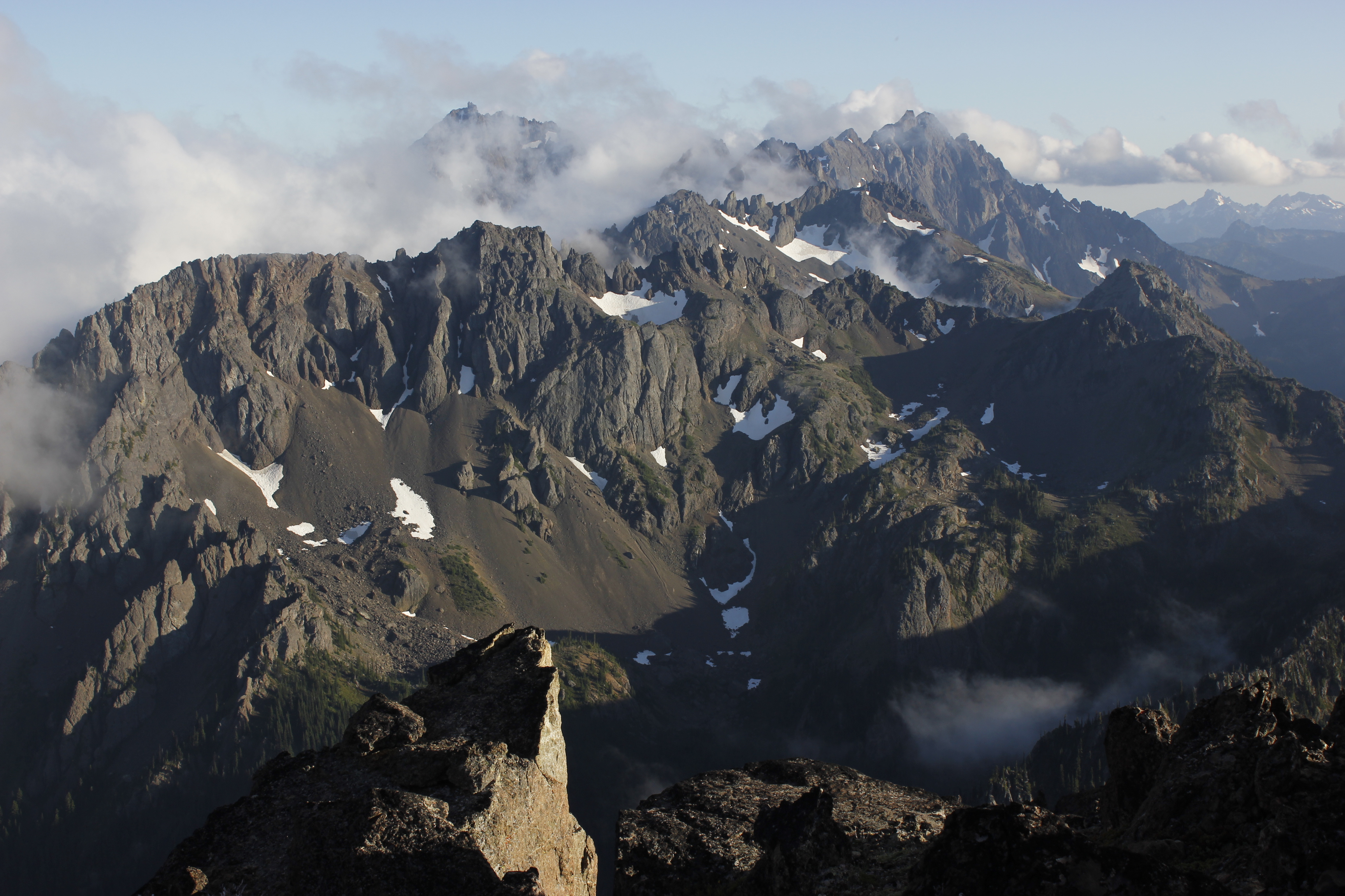 Boulder Ridge from Buckhorn Mountain. Olympic National Park, Buckhorn Wilderness Photo by Matthew Tharp